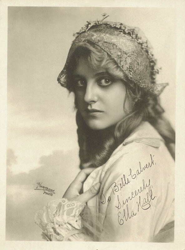 Autographed portrait of American actress Ella Hall (1896–1981) by Fred Hartsook.